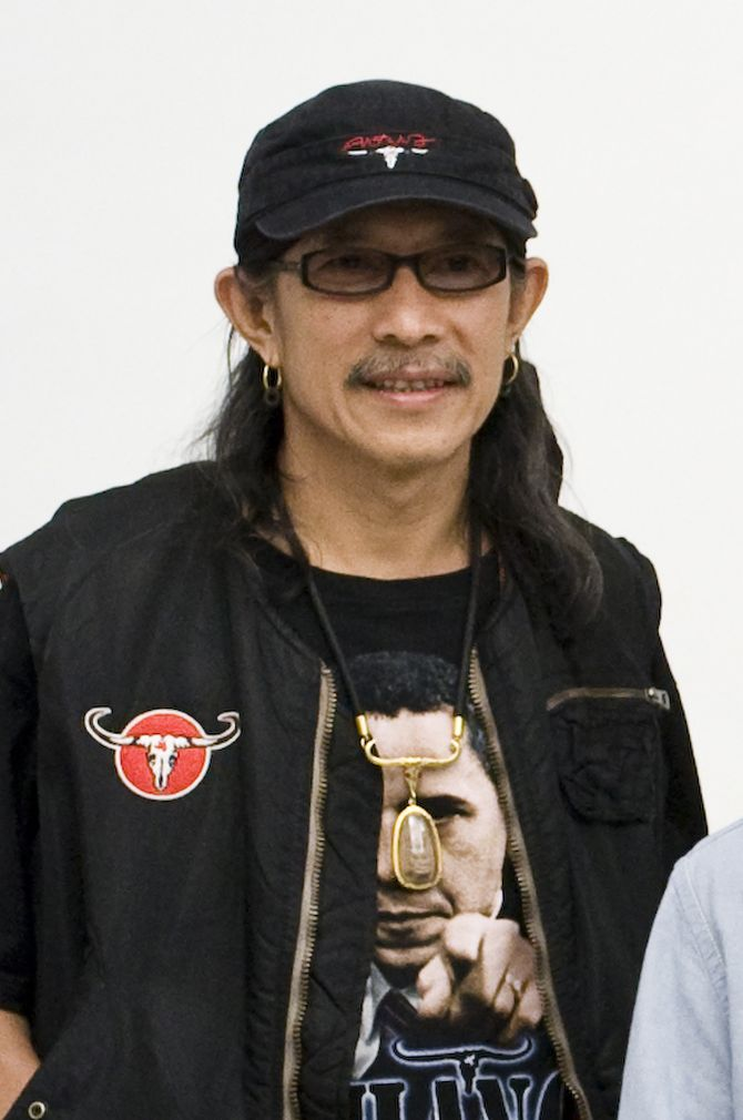 Yuenyong Opakul, leader of the band Carabao.